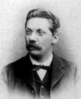 Bild des Mathematikers Hermann Cäsar Hannibal Schubert (1848-1911), picture of the mathematician Hermann Cäsar Hannibal Schubert